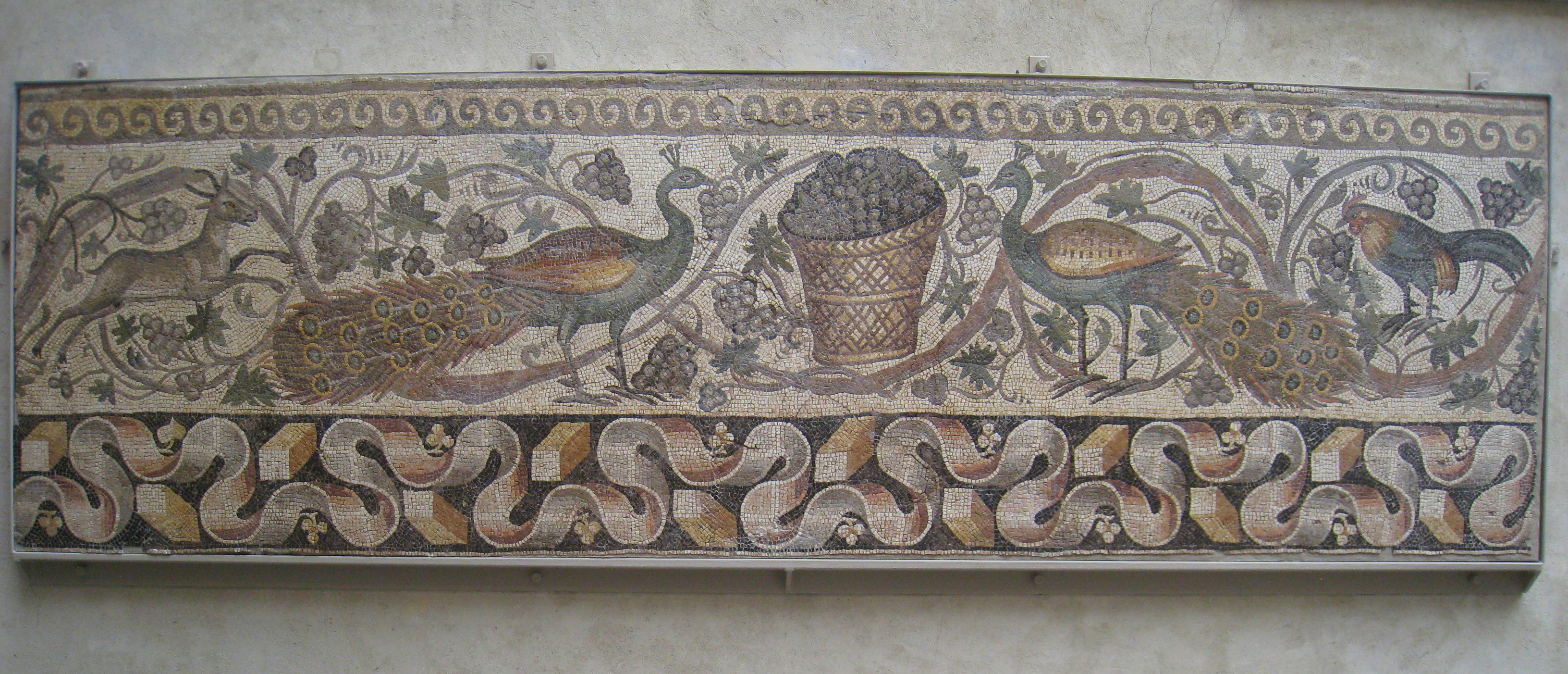 Antioch mosaics in the Worcester Art Museum, Worcester, Massachusetts, USA. The museum permits photography and does not restrict usage of the photographs.